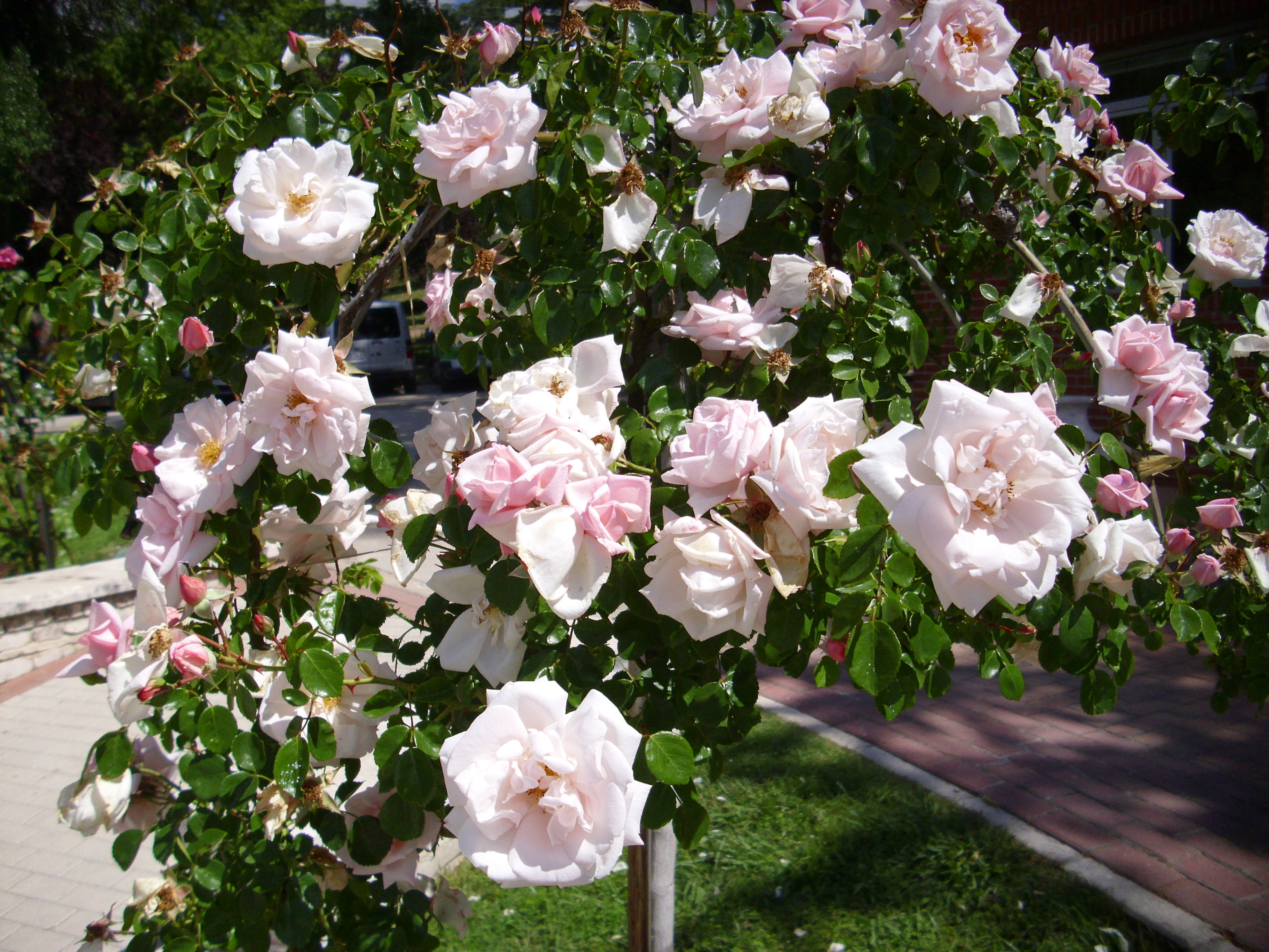 Rosa 'New Dawn' Dreer 1930, in the "Rosaleda del Parque del Oeste" in Madrid. Identified by sign.